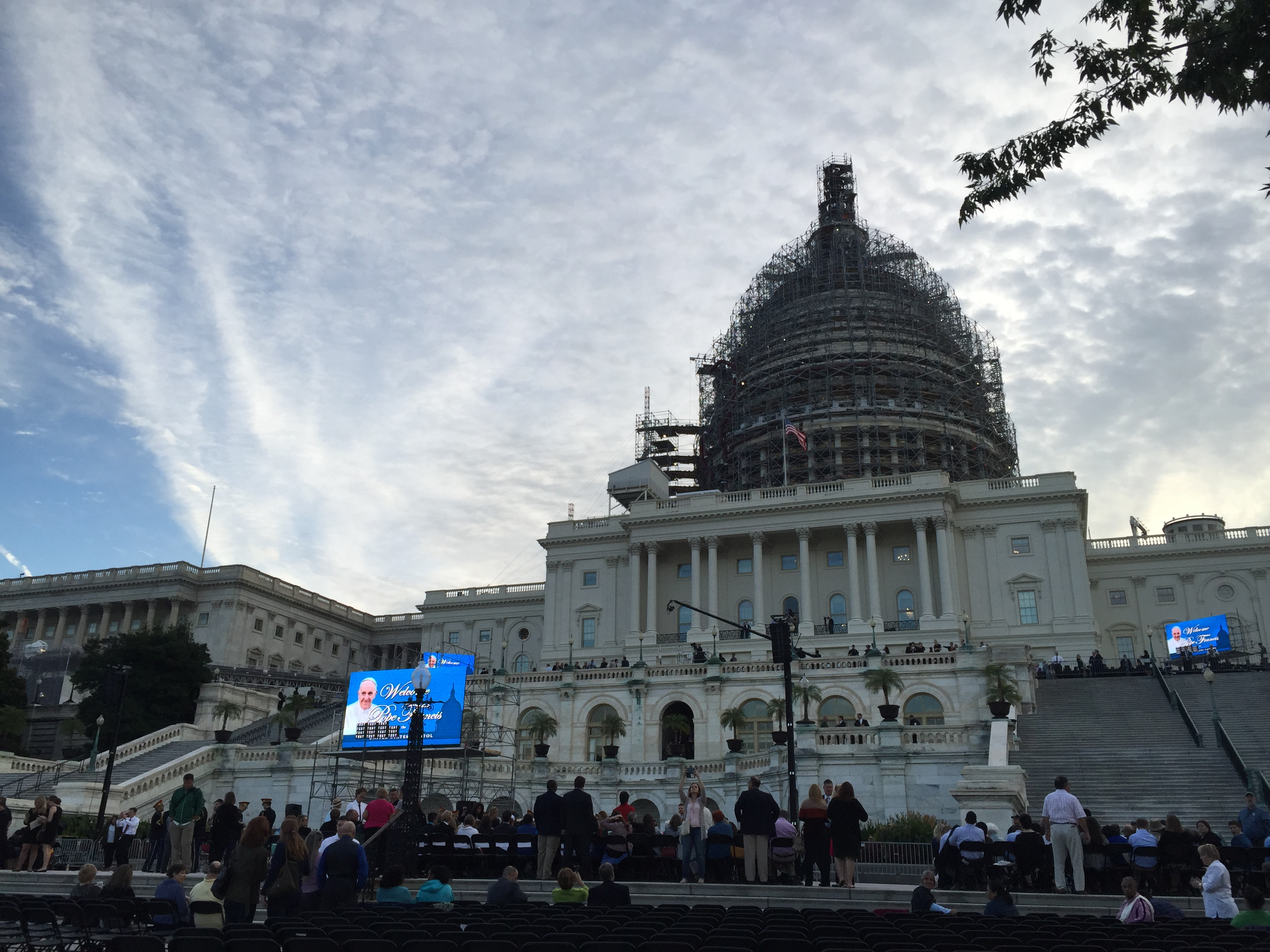 US Capitol Building on morning of visit by Pope Francis